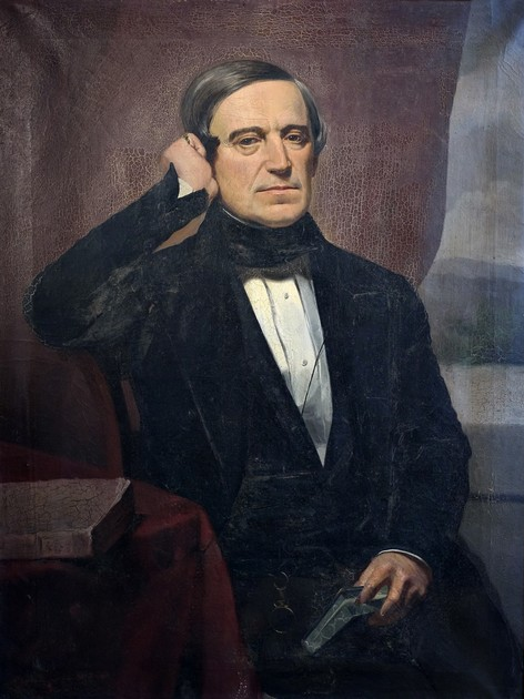 Portrait of the Viscount of Seabra (1851), by Francisco José Resende. In the collection of the Faculty of Law of the University of Coimbra.